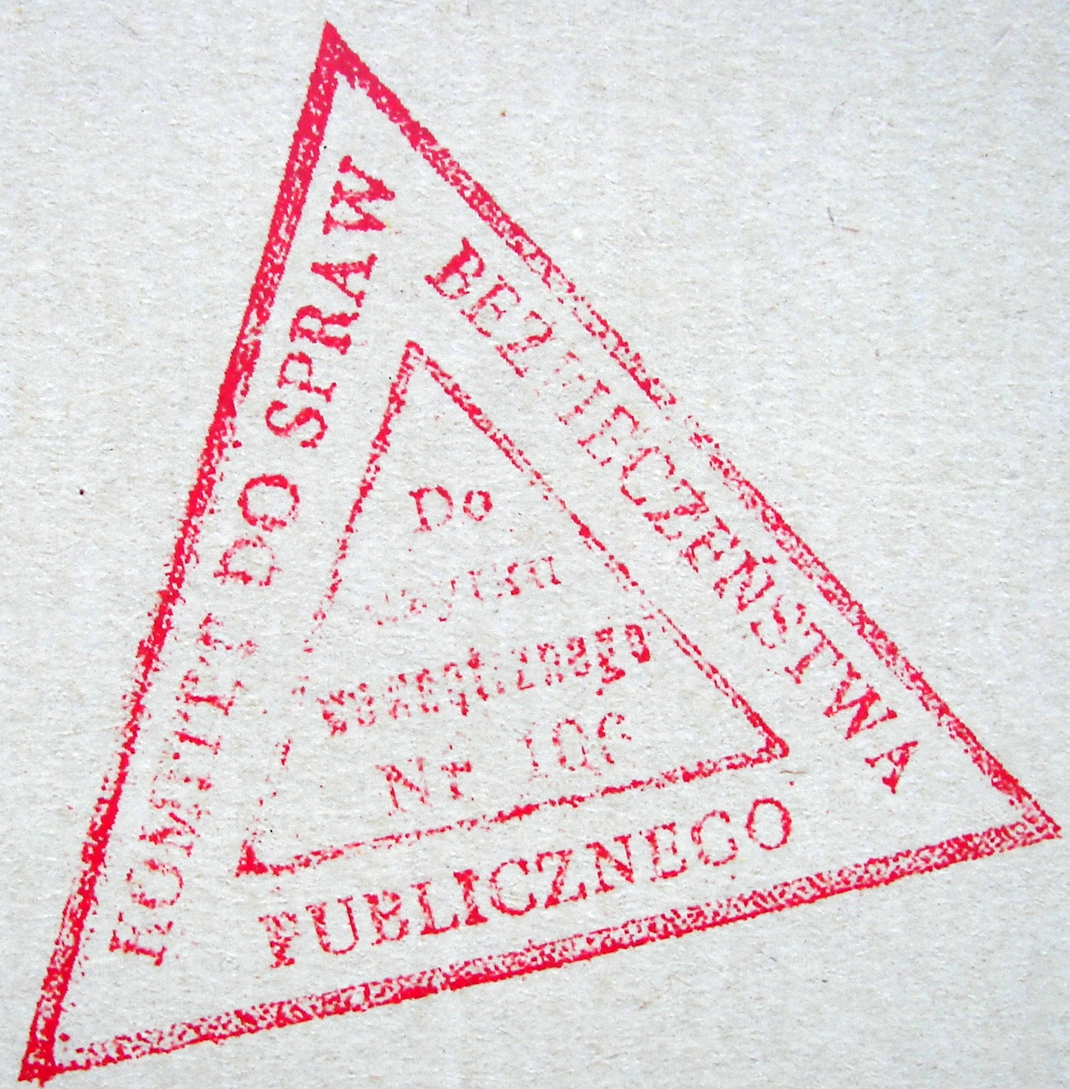 Seal used by Public Security of People's Republic of Poland